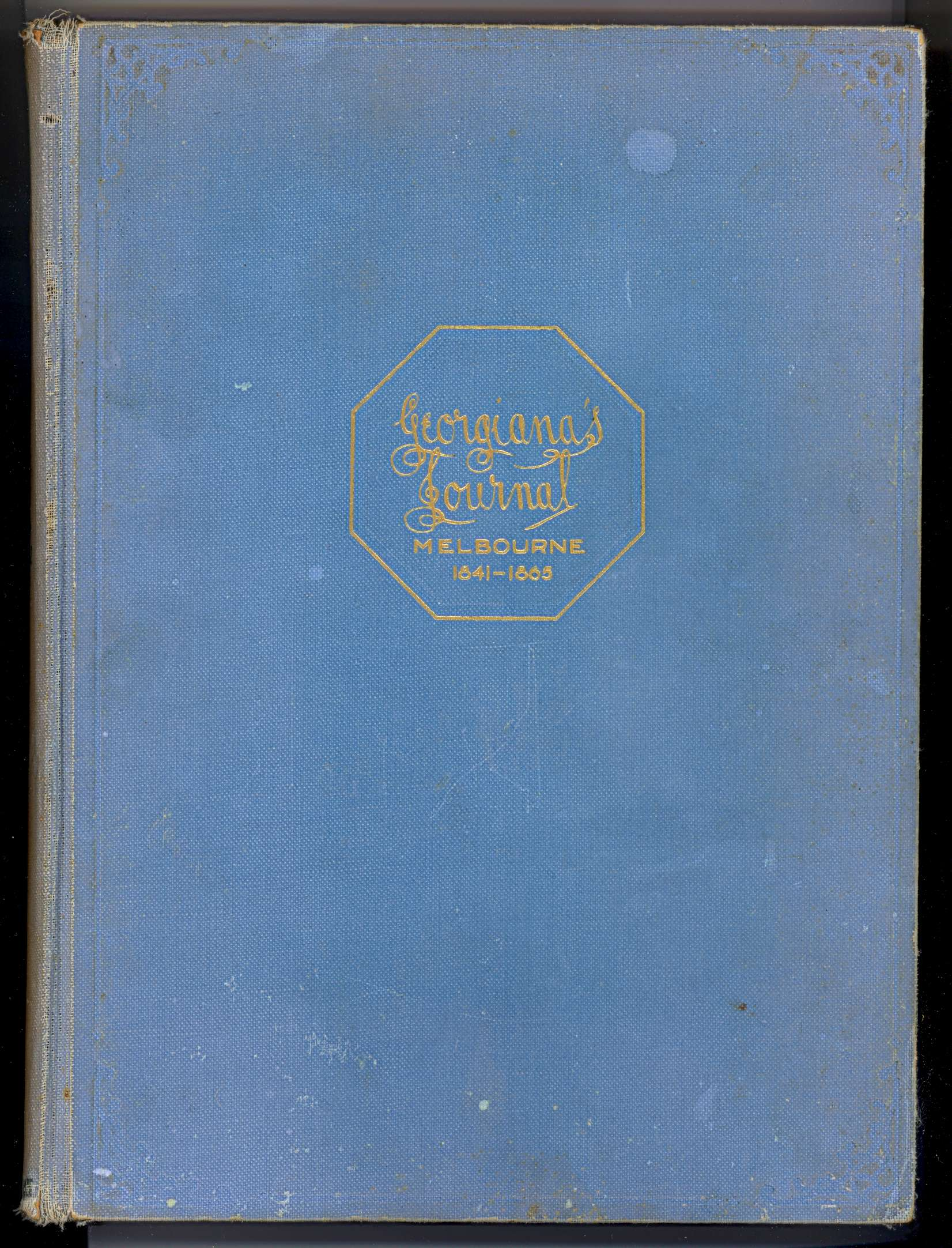 "Georgiana's Journal (1841-1865)" — by Georgiana McCrae; edited by Hugh McCrae, published in 1934. About the McCrae Homestead and regional Melbourne history, from 1841 to 1865.